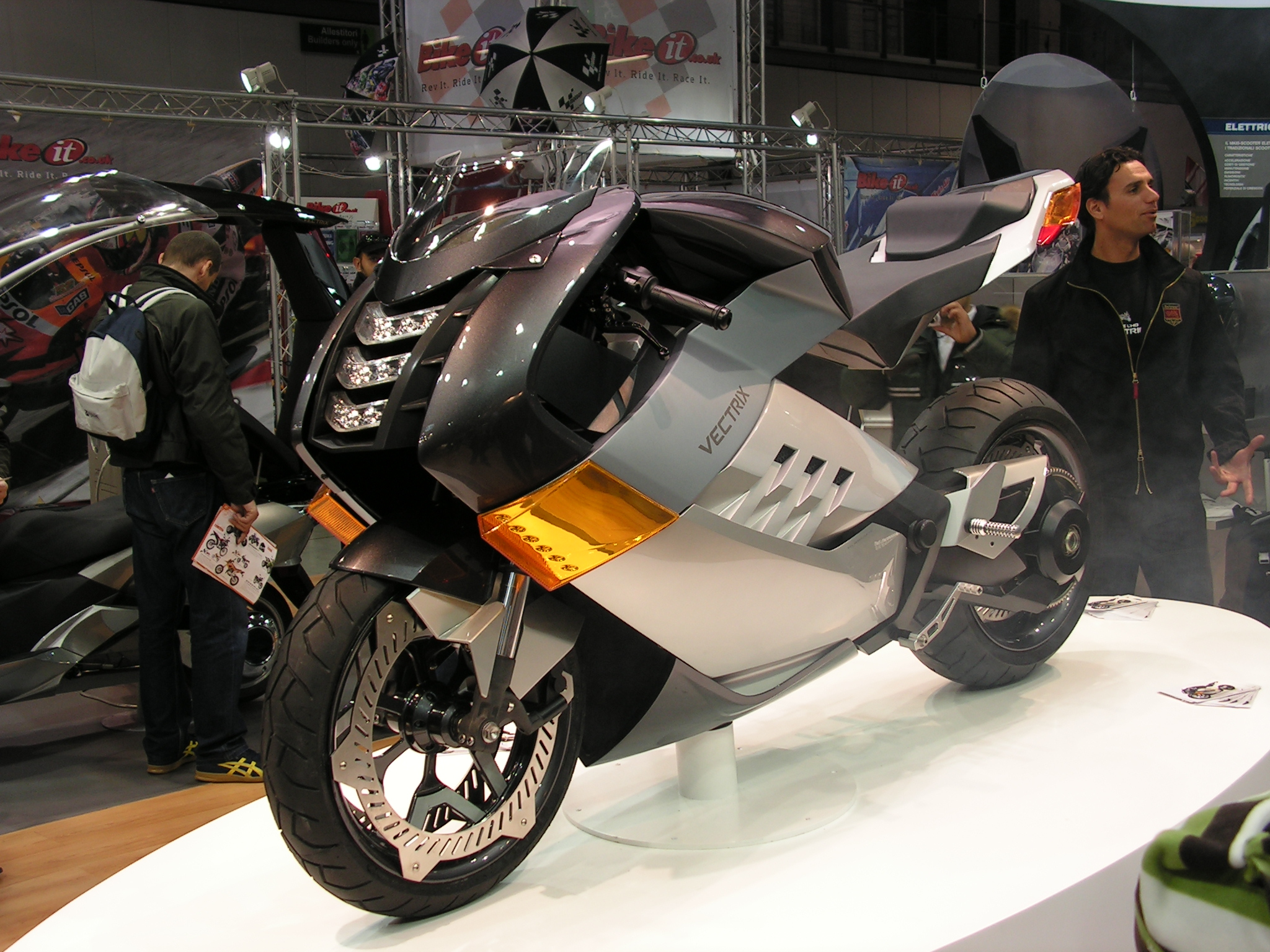 Vectrix electric superbike (over 200 km/h) - EICMA 2007, Milan (Italy)